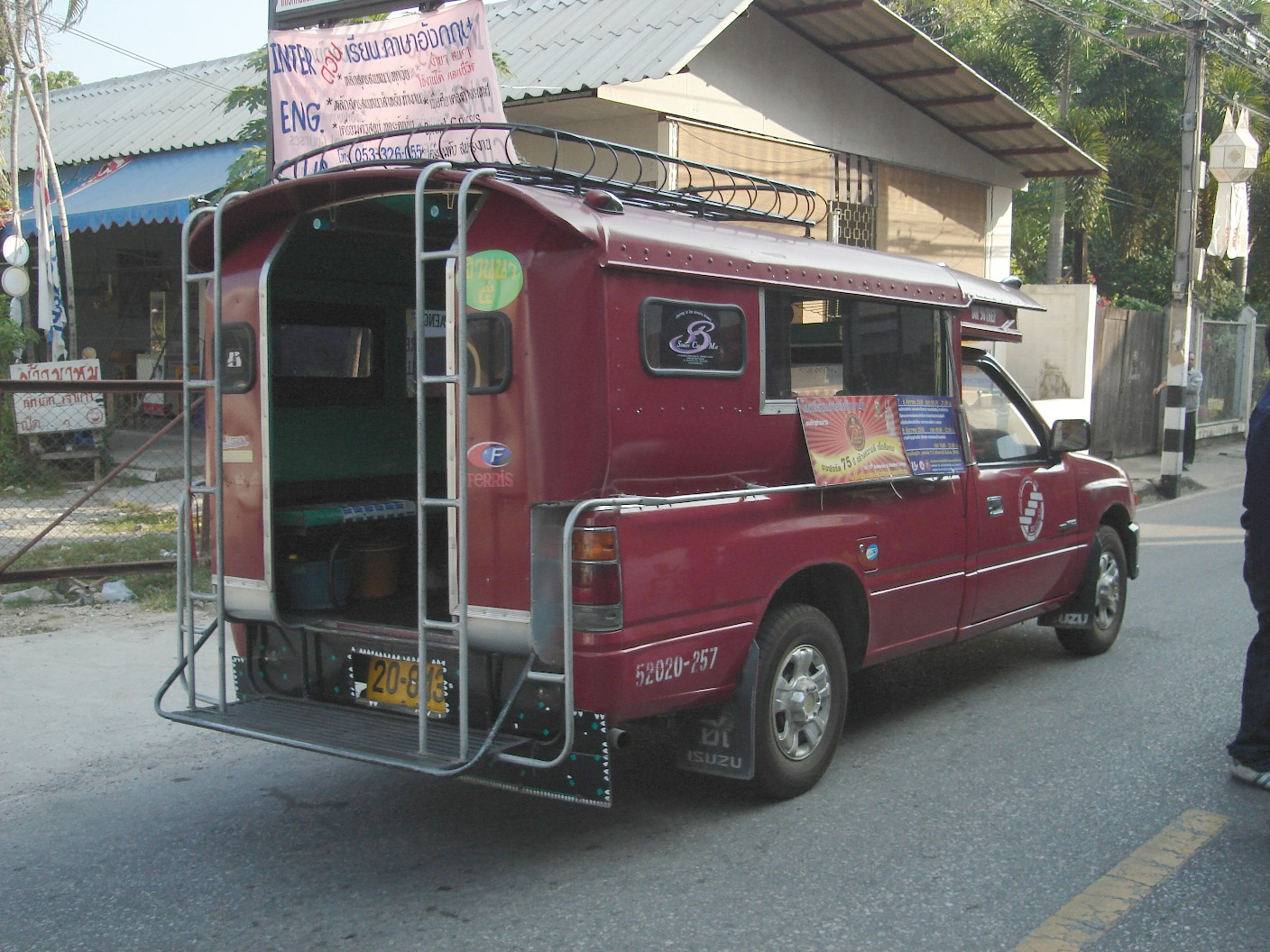 songthaews (the latter known locally as rot daeng, literally "red car") - Chiang Mai, Thailand รถสองแถว / รถแดง - เชียงใหม่